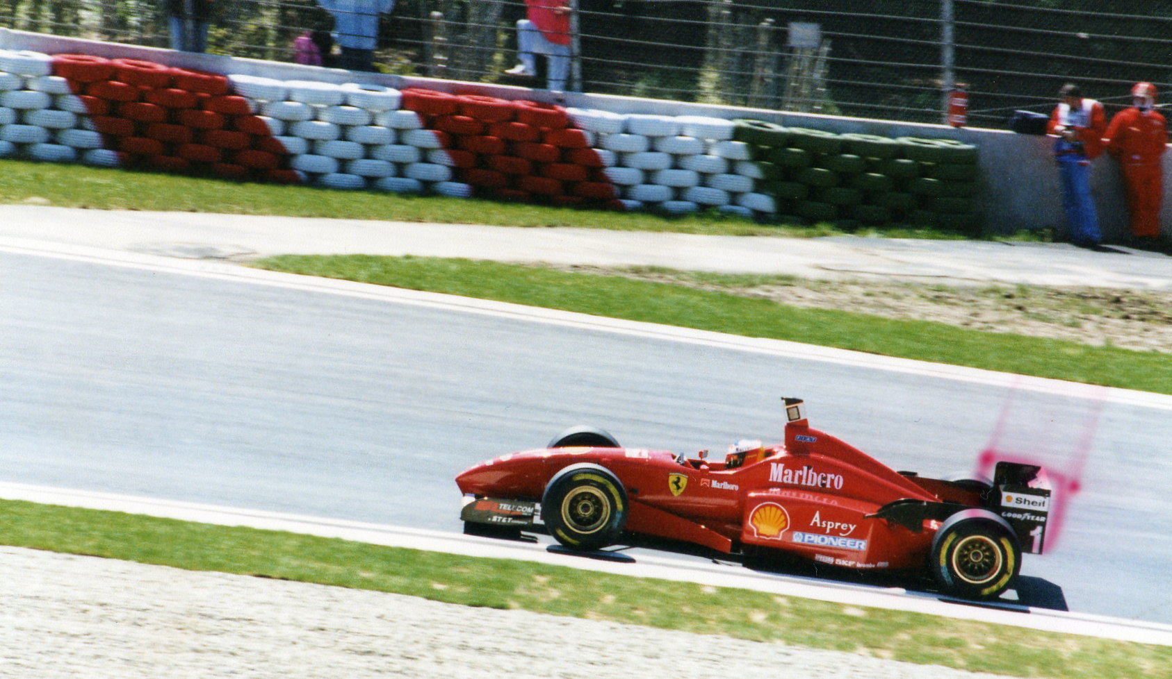 Michael Schumacher during free practice of 1996 San Marino Grand Prix.